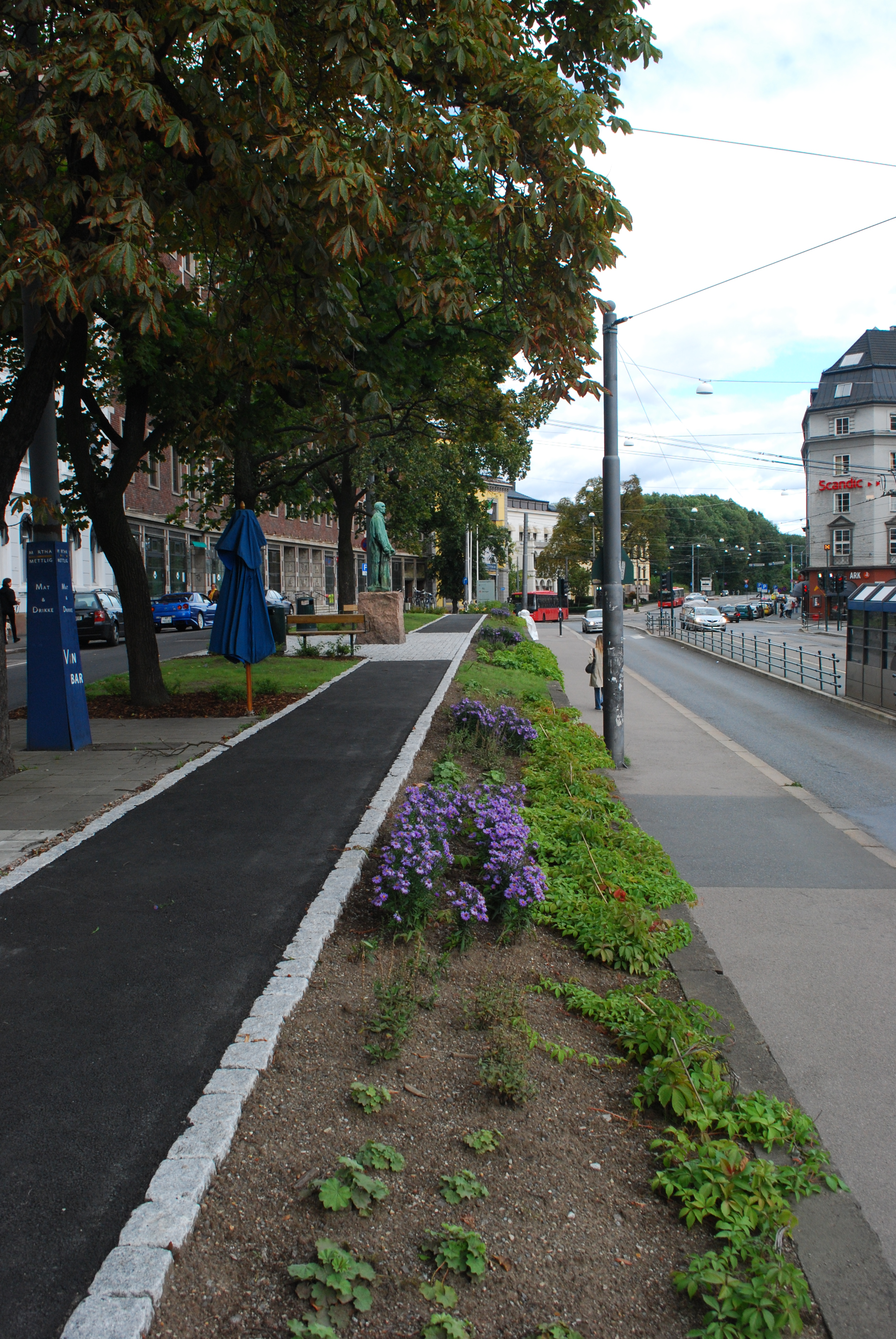 Sommerroparken, Solli plass, Oslo, after upgrading summer 2009